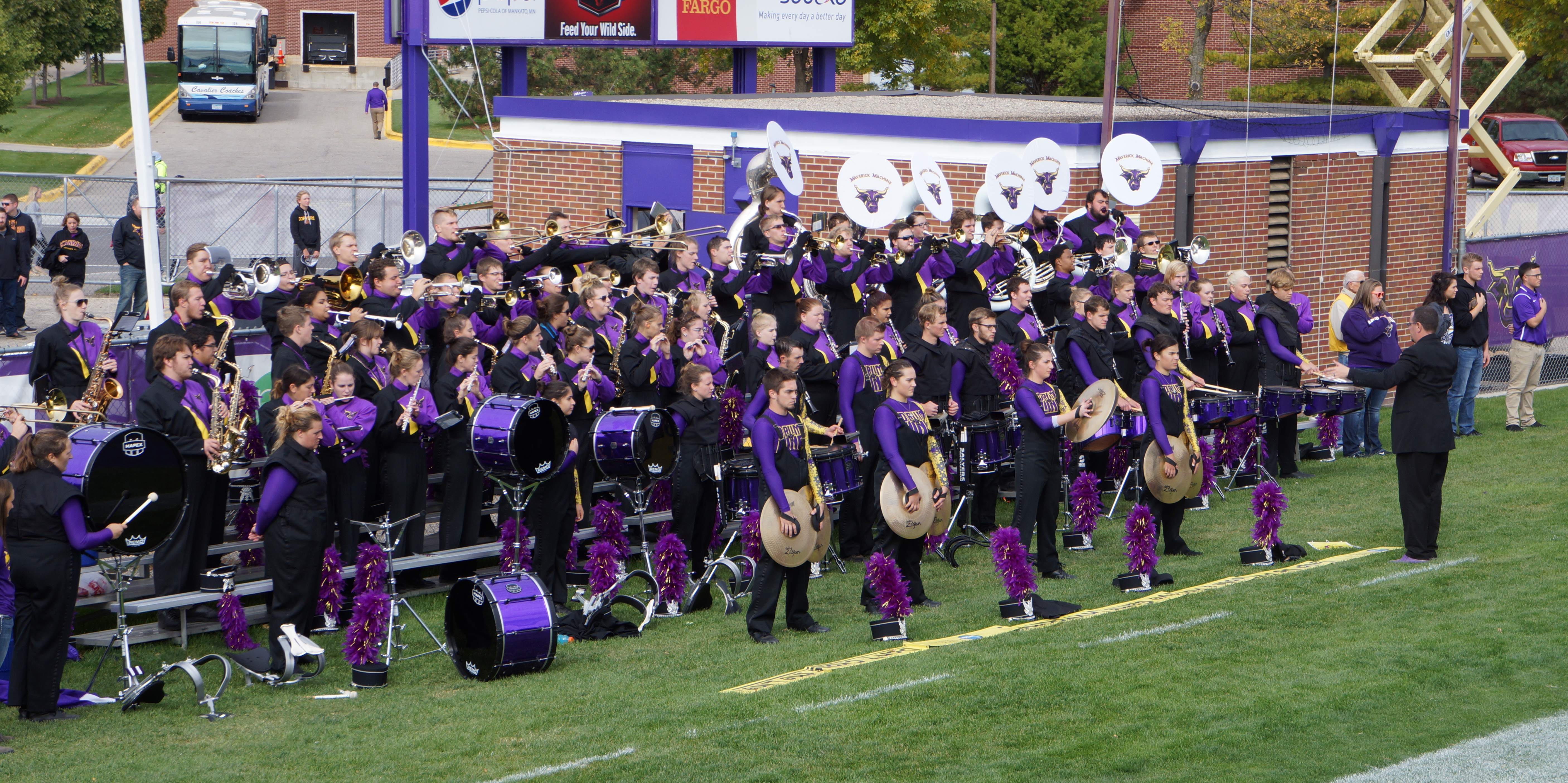 The Maverick Machine is the Marching Band of the Minnesota State University, Mankato